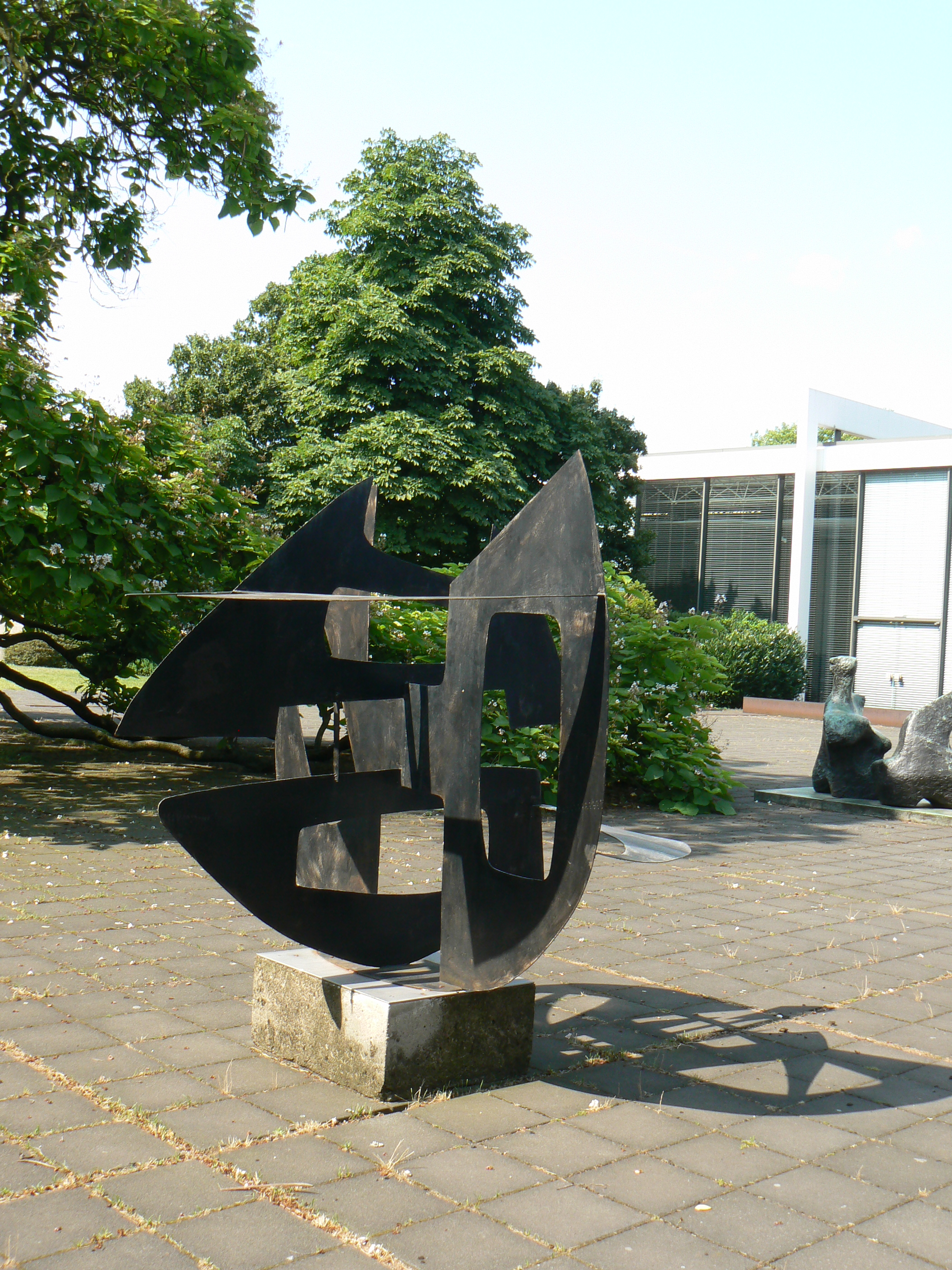 sculpture Zwischen zwei Welten (1952) by Berto Lardera in Duisburg/Germany